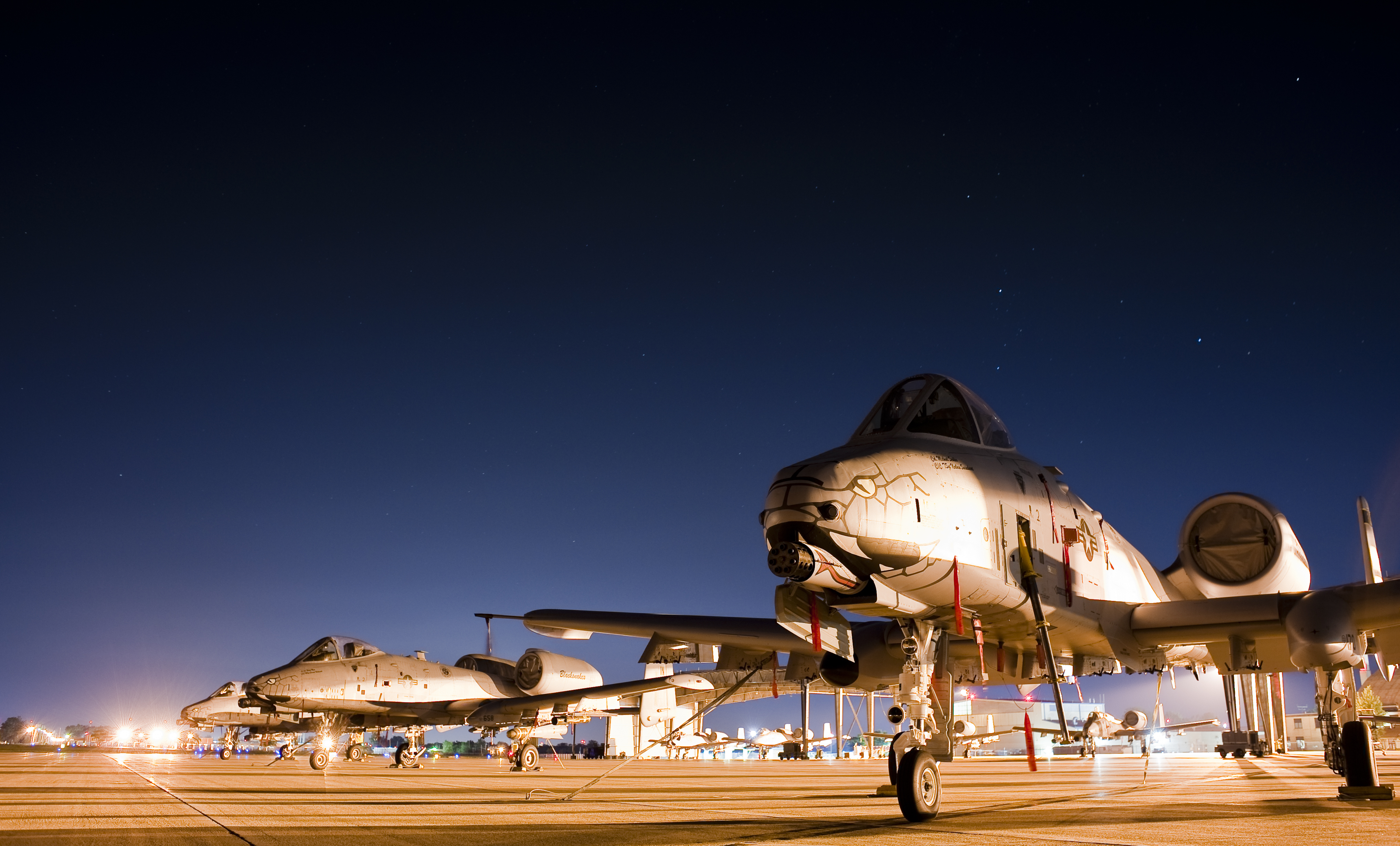 An A-10C Warthog from the 122nd Fighter Wing, Fort Wayne, Ind., sits under a star filled sky after completing a variety of night-flying missions, Aug. 13, 2015, at the Indiana Air National Guard base, Fort Wayne, Ind. Airmen routinely train for night operations to make sure they are ready to answer the nations call regardless of time of day. (U.S. Air National Guard photo by Staff Sgt. William Hopper/Released)